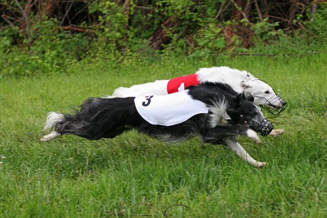 Black and white Silken Windhound